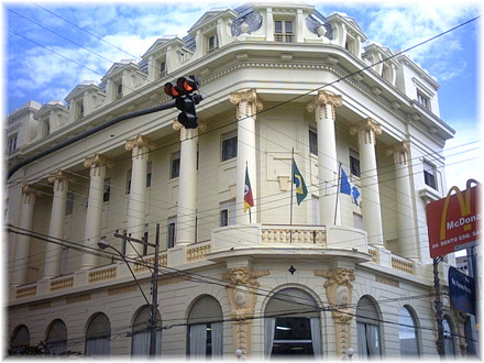 Photo of the former Banco Pelotense building, now BANRISUL building, in Pelotas, Brazil.